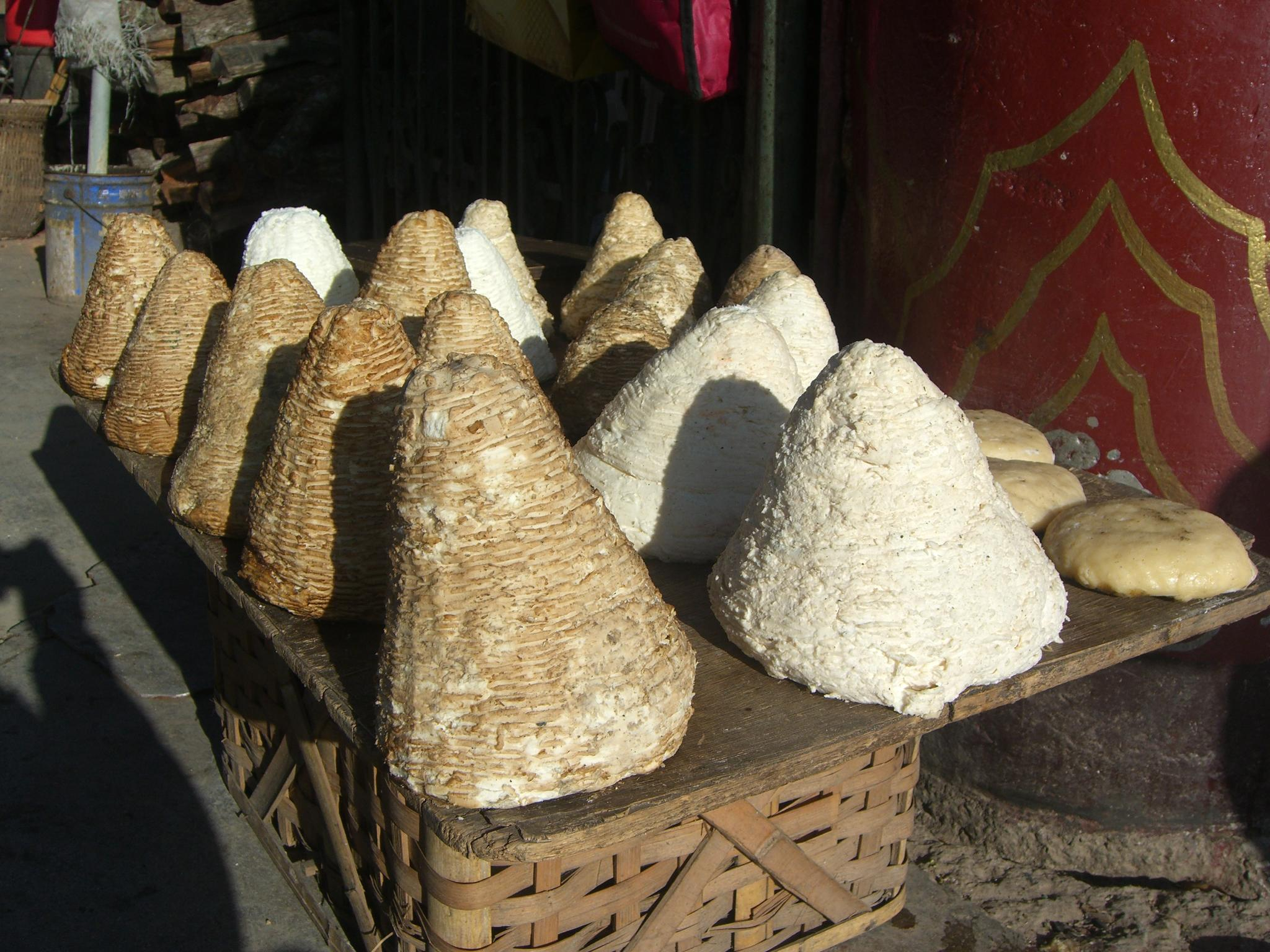 Tibetan cheeses - Zhongdian Market